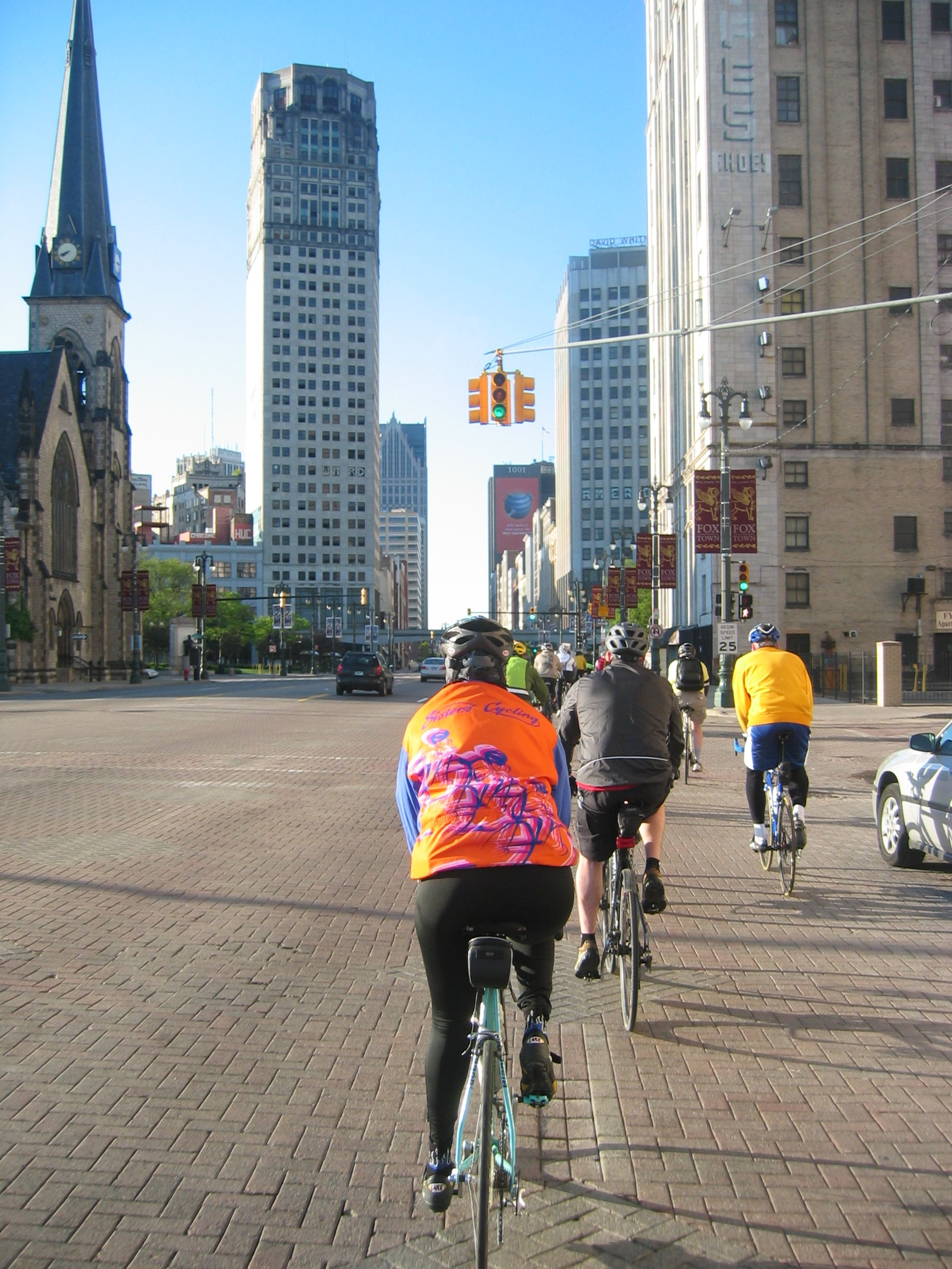 Biking on Woodward Avenue in Detroit, Michigan